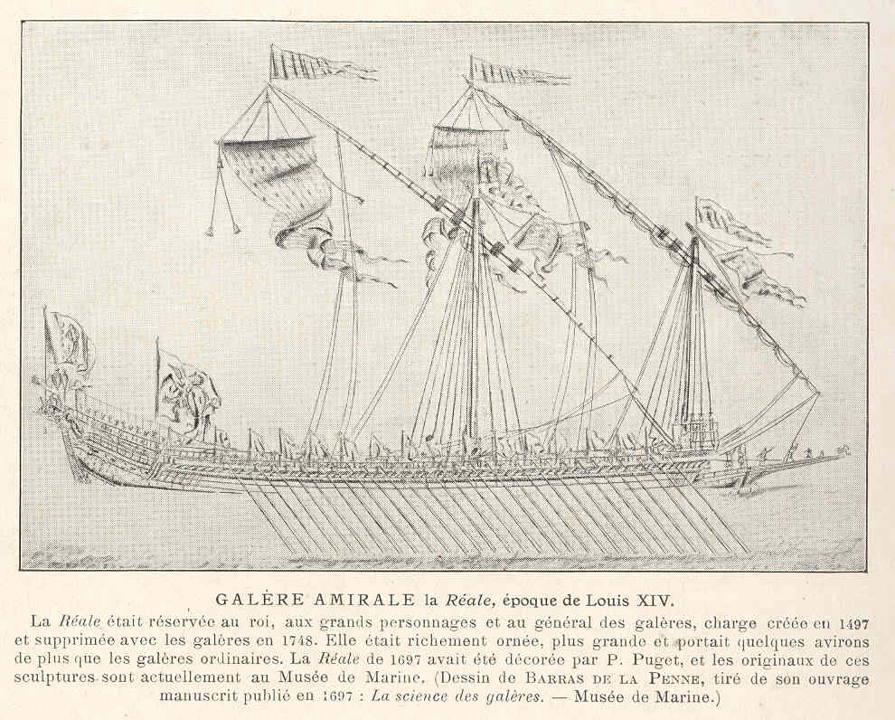 Drawing of the French royal galley La Réale, by la Penne